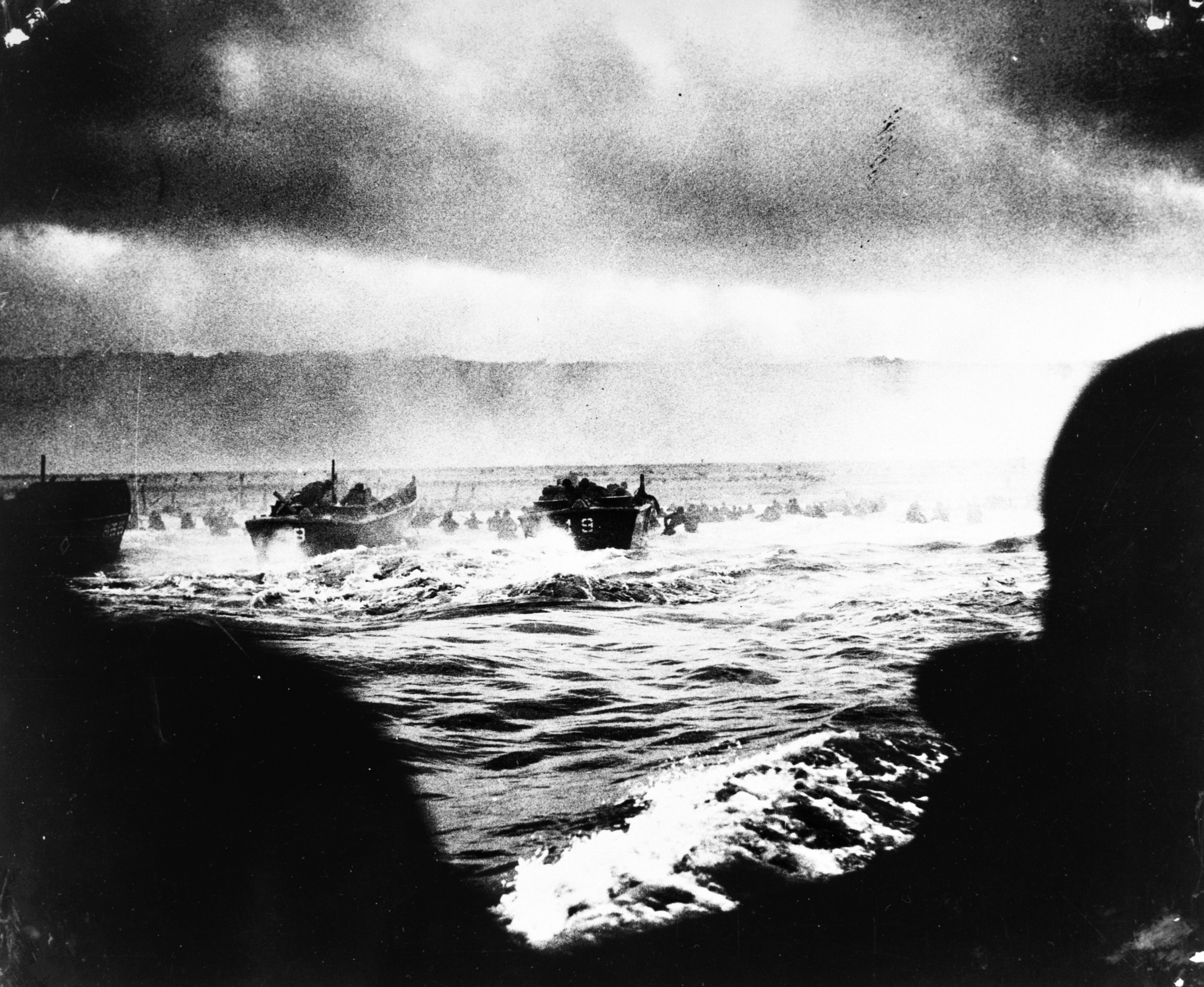 LCVP landing craft put troops ashore on "Omaha" Beach on "D-Day", 6 June 1944. The LCVP at far left is from USS Samuel Chase (APA-26).